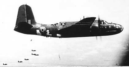 The bombers group "Lorraine" of the Free French Air Forces, in action during World war II